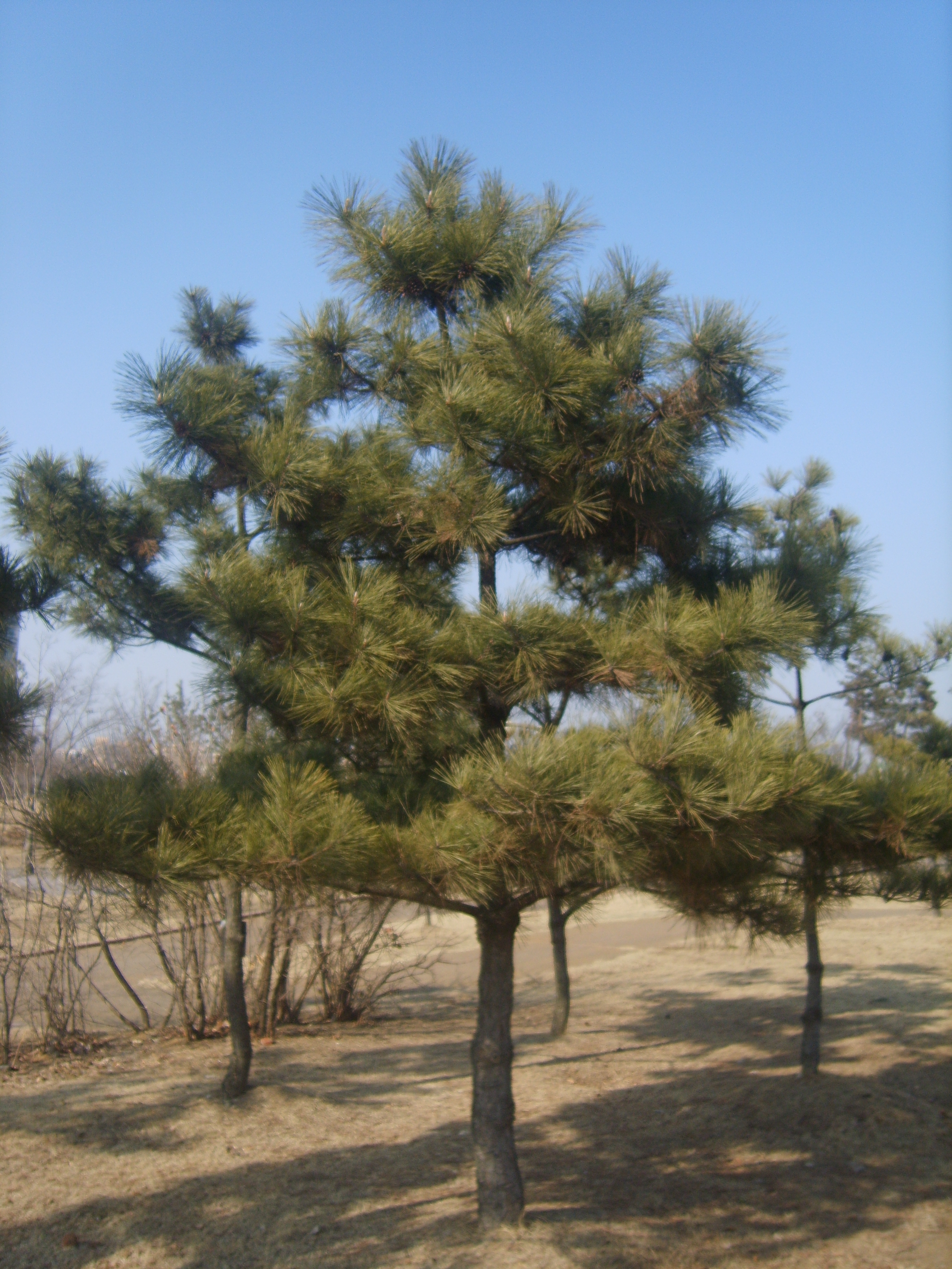 Young Pinus thunbergii in Bupyoung park Incheon Korea. 부평공원에서 찍음. 어린 곰솔.